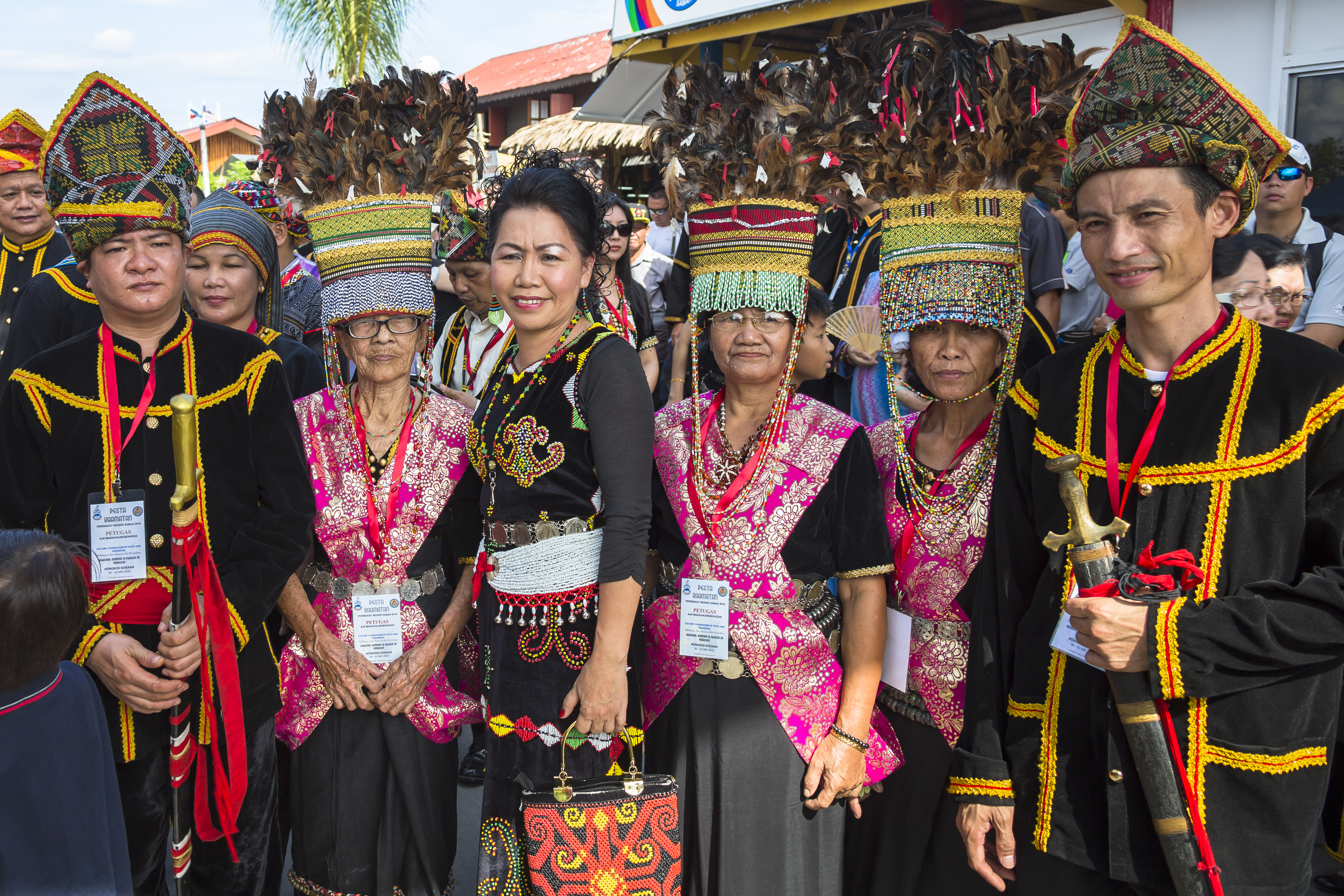 Penampang, Sabah: Joanna Datuk Kitingan, Director of Sabah Museum with the bobohizan (traditional Dusun priests and priestesses) during the opening ceremony of Kaamatan 2014 at Hongkod Koisaan, the unity hall of KDCA